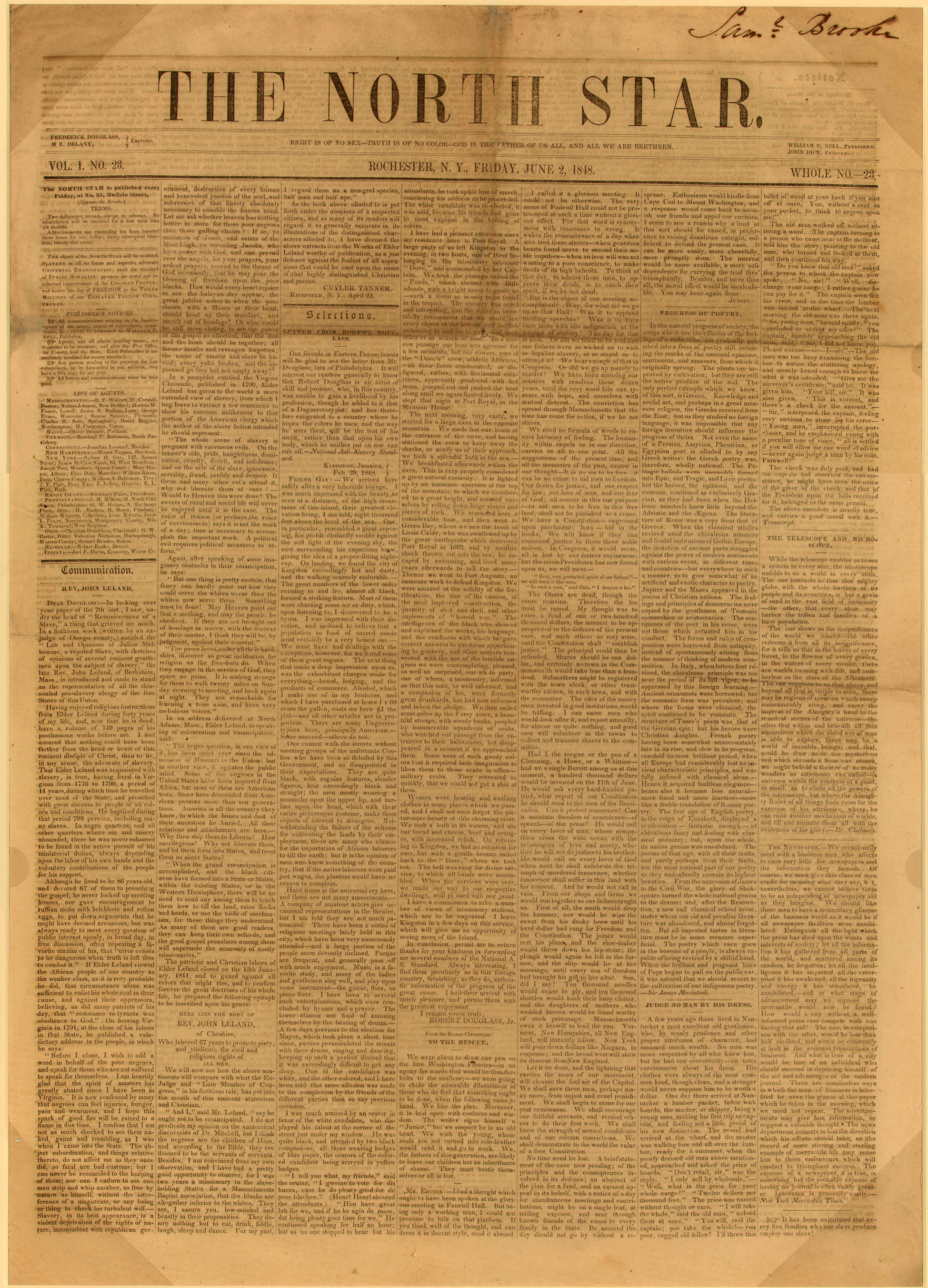 Front page, The North Star, an abolitionist newspaper. Edited by Afro-American activist Frederick Douglass in Rochester (New York).